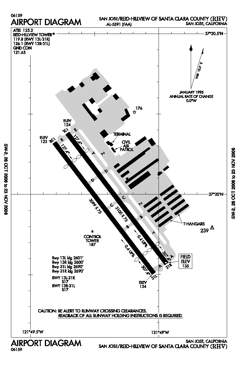 FAA airport diagram for RHV (Reid-Hillview Airport of Santa Clara County) in California, United States.